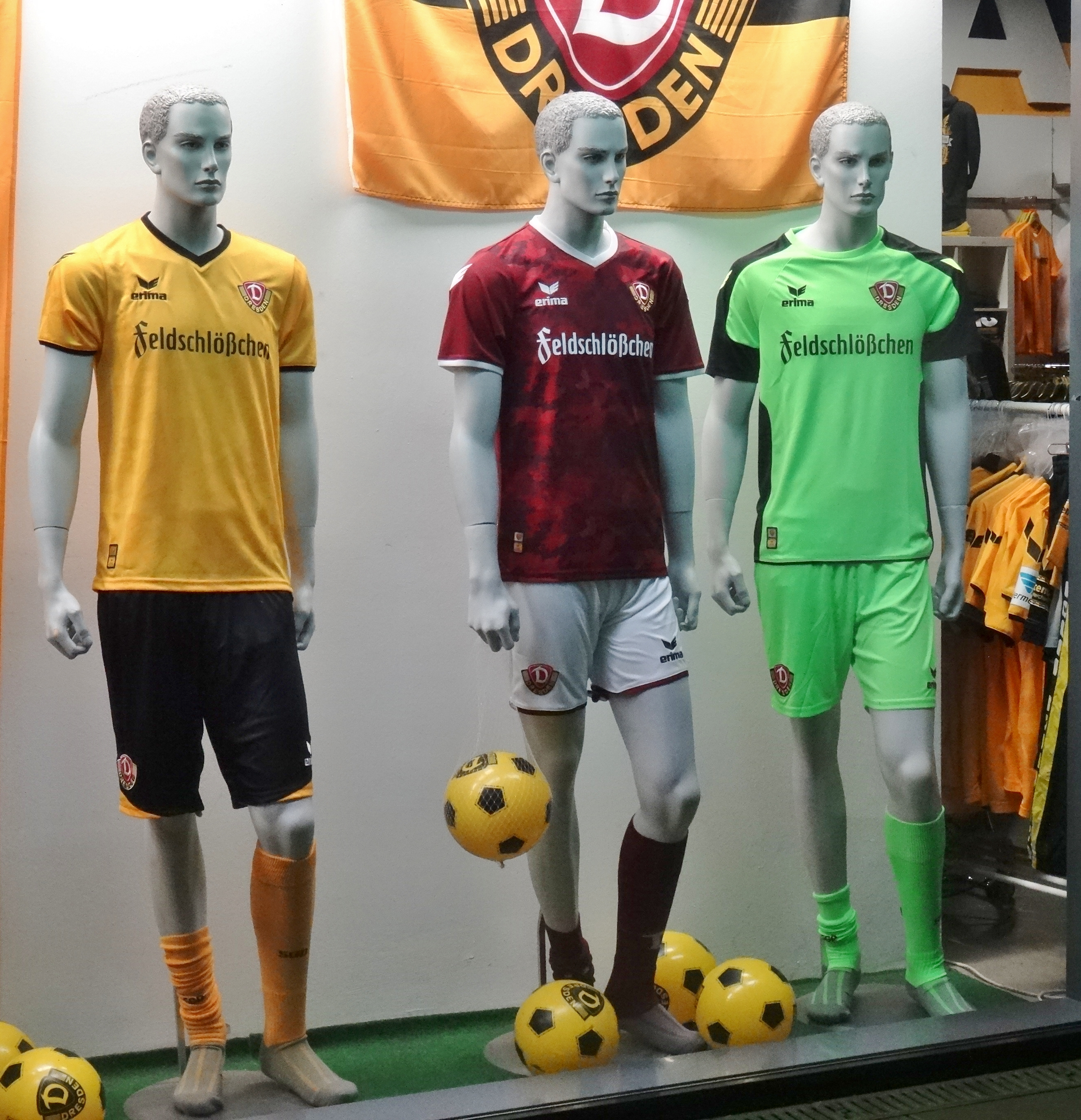 Dynamo Dresden Kit 2016